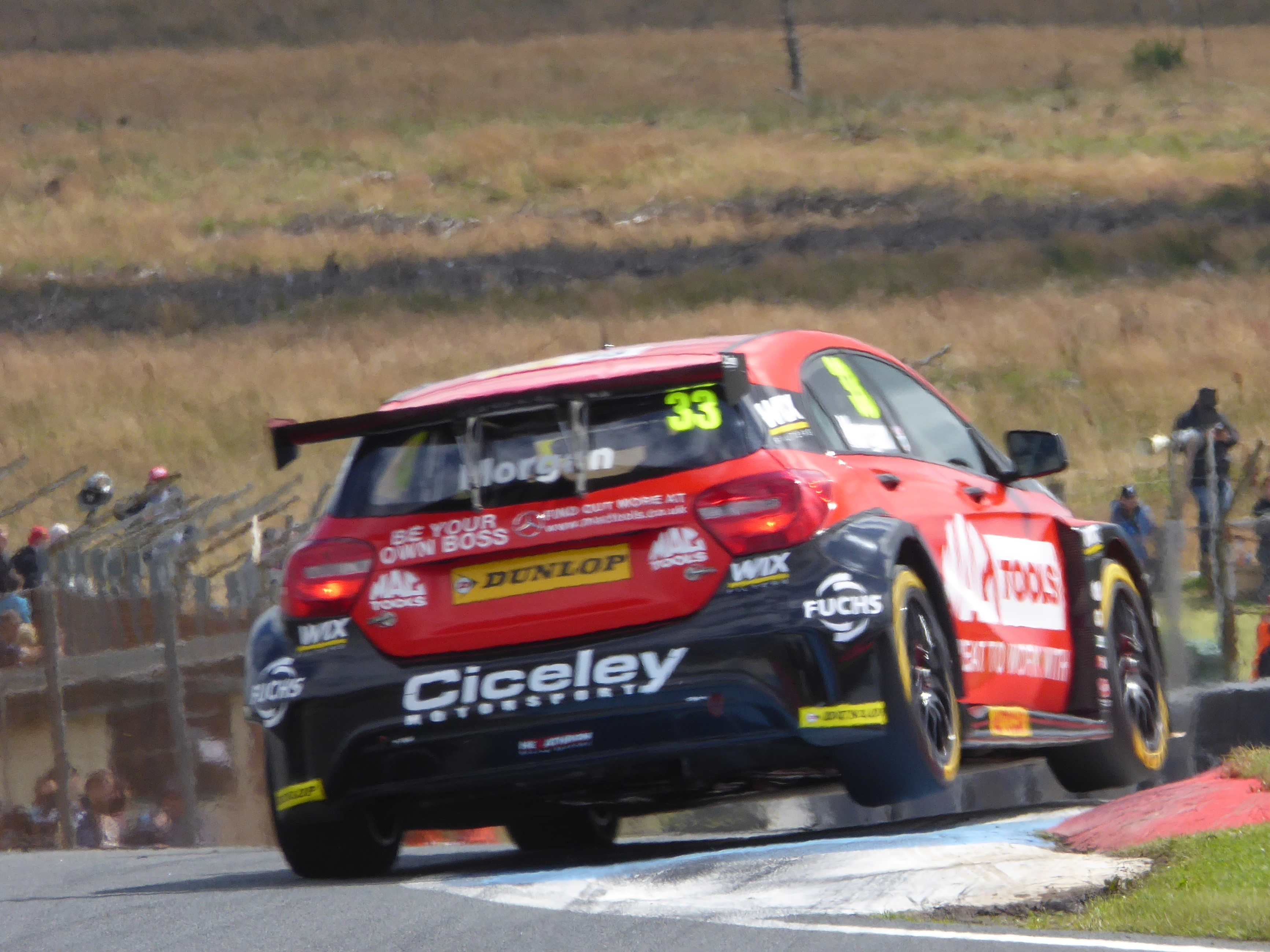 Adam Morgan (Ciceley Motorsport with MAC Tools), at the Knockhill round of the 2017 British Touring Car Championship.